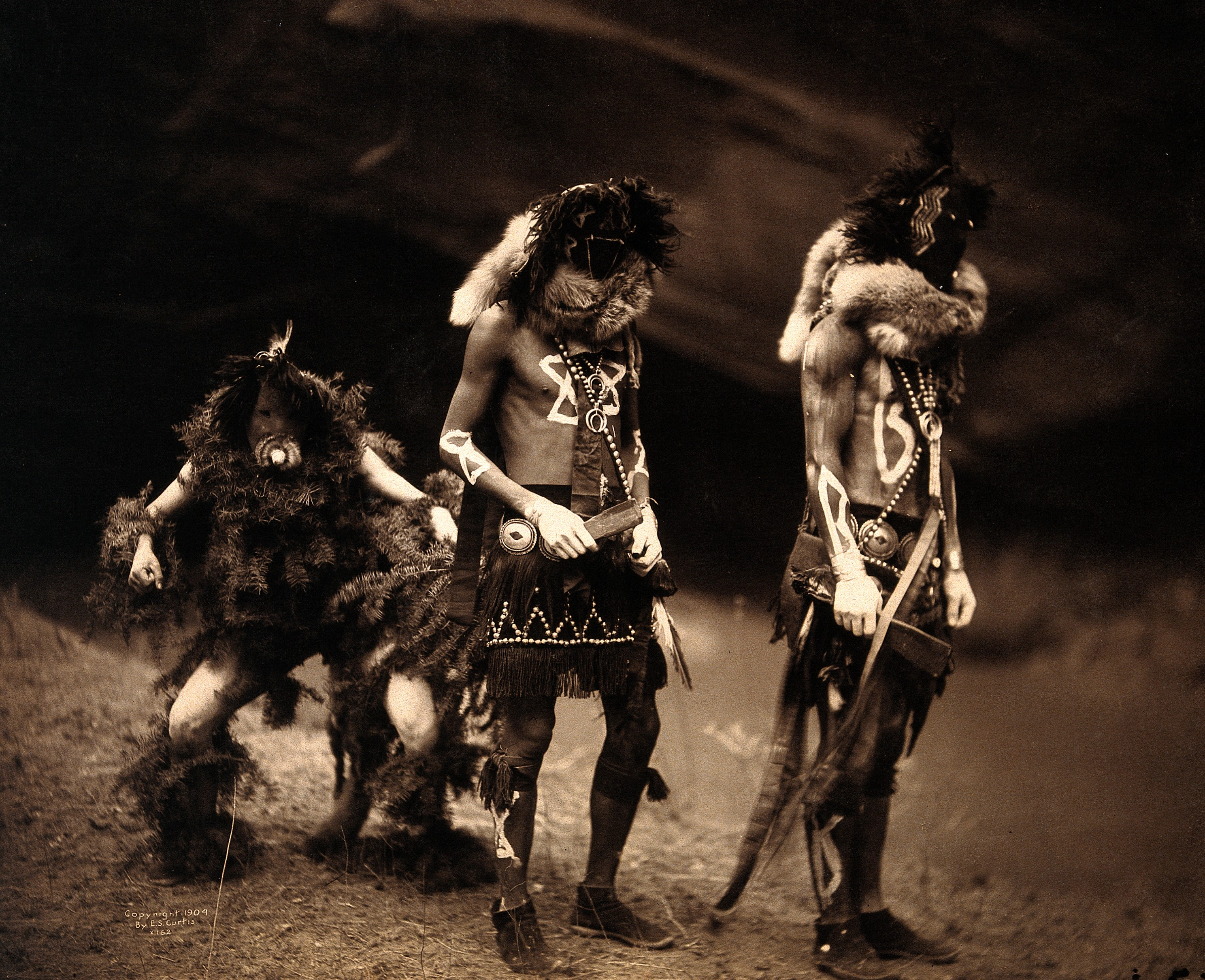 Three Navajo men proceeding as war gods. Iconographic Collections Keywords: Tribe; Spirits; Indians, North American; Tribal; American Indian; Edward S. Curtis; Anthropology; Ethnography; Shaman; Population Groups; Native